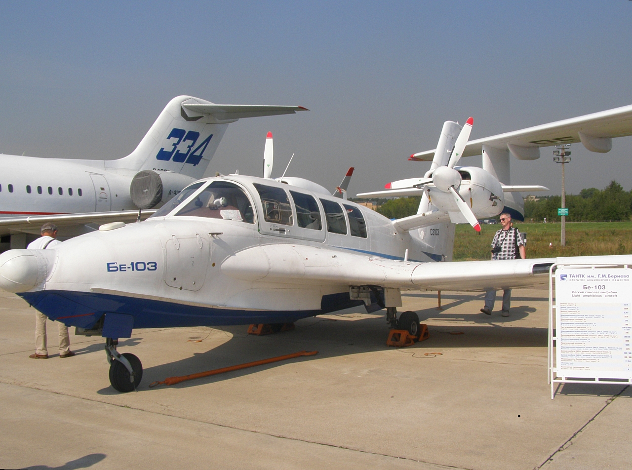 Beriev Be-103 aircraft in the MAKS-2007 airshow